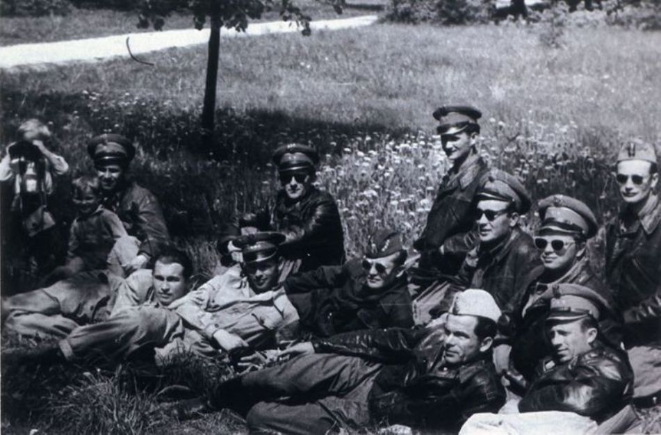 Piloci 64.LPS,od lewej d-ca 2 szkolnej eskadry mjr pil. Tadeusz Gawryjołek z synami,od prawej por.pil.Stanisław Boczar, por.pil. Zdzisław Żwirek, por.pil. Stanisław Jaros, por.pil. Henryk Pięta,kpt.pil. Kazimierz Bober, wyżej od prawej por. pil. Kazimierz Sztorc, ppor. pil. Wiesław Adrian, por. pil. Tadeusz Wiącek, ppor. pil. Tadeusz Poncelusz, 1959r.